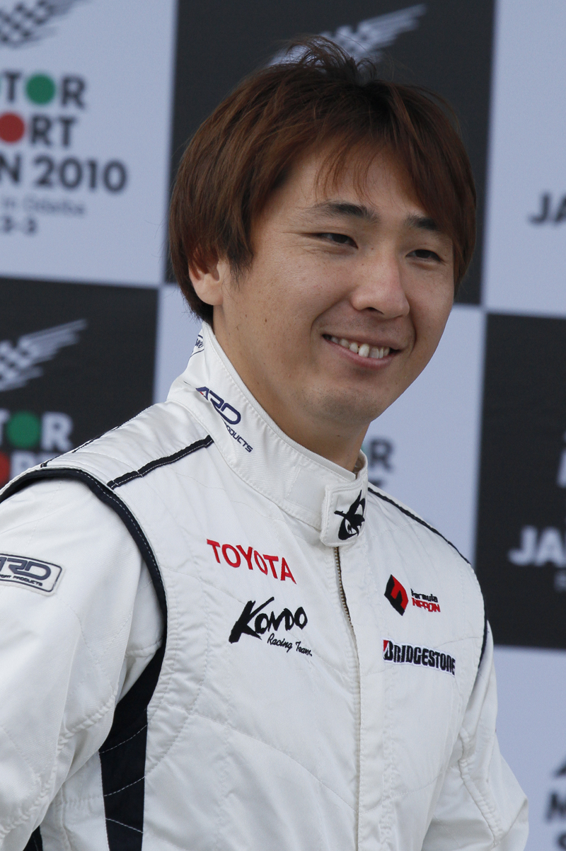 Motorsport Japan 2010: Tsugio Matsuda (Kondo Racing / Formula Nippon)